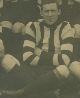 Photograph of Richard Daykin in 1910